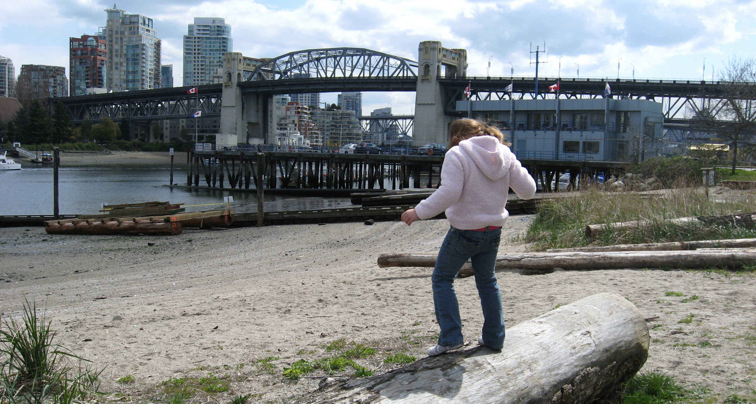 view of Burrard St Bridge from Vanier Park (sw), showing Granville St Bridge proximity, relative to issues discussed